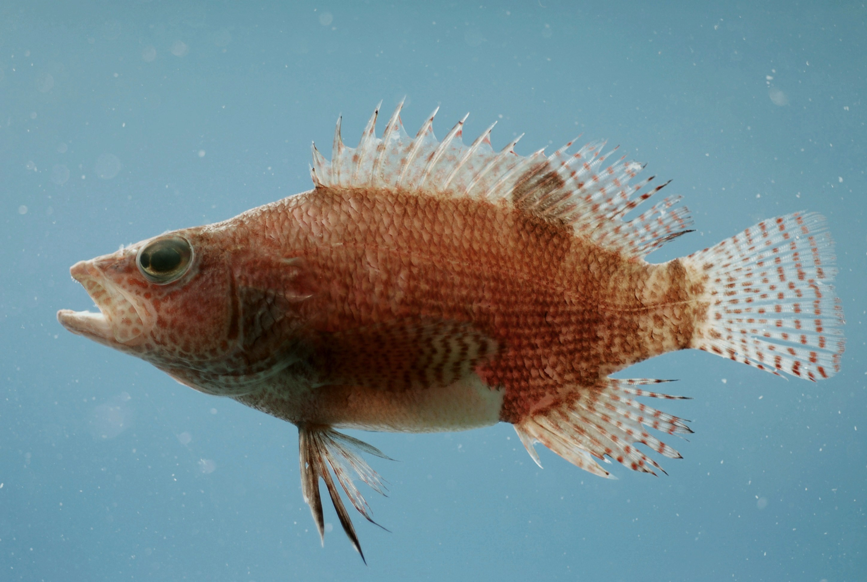 Belted sandfish ( Serranus subligarius ). Gulf of Mexico.